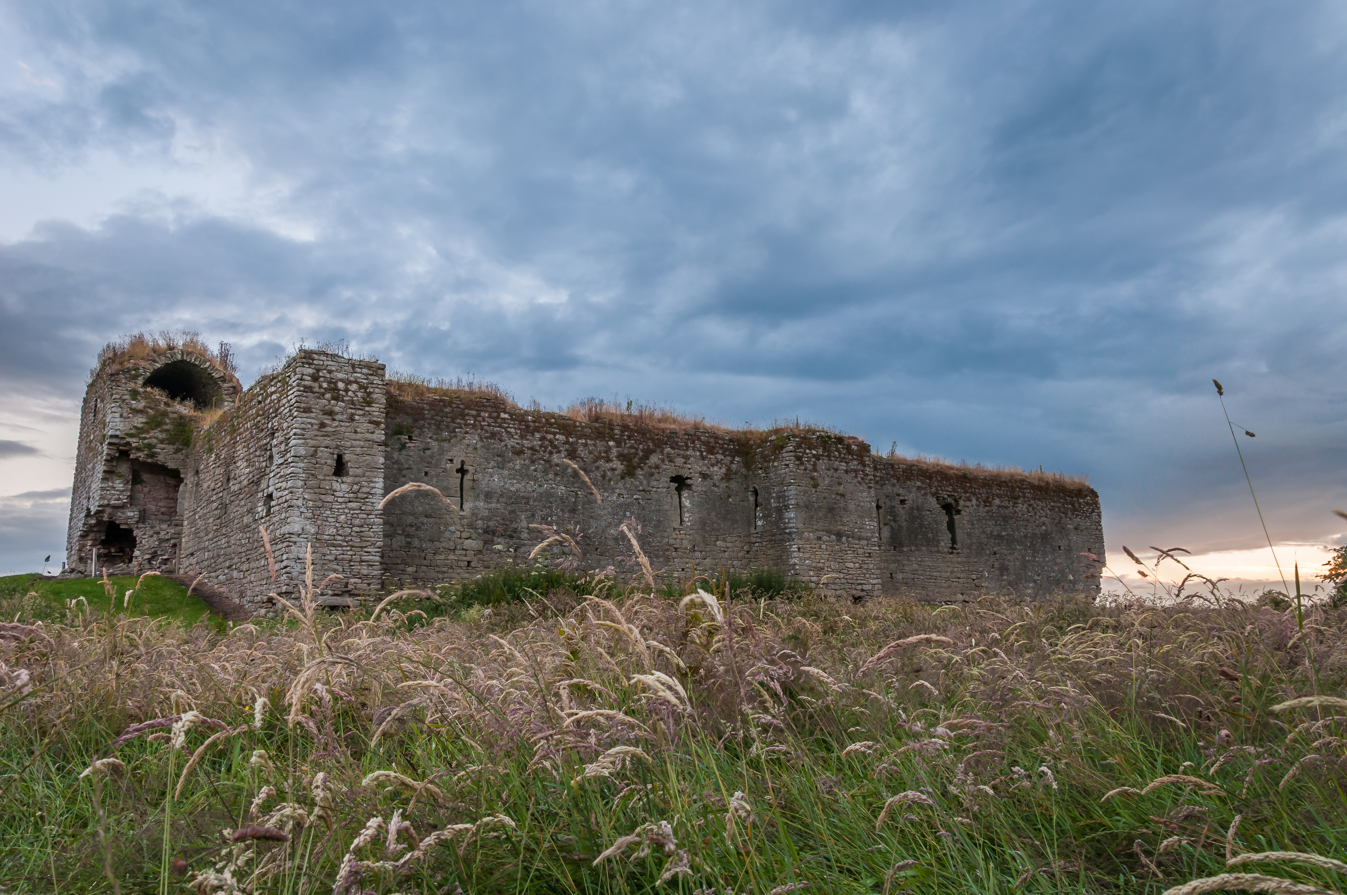 Ballymoon Castle near Muine Bheag, County Carlow